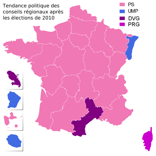 French regional political map in 2010.